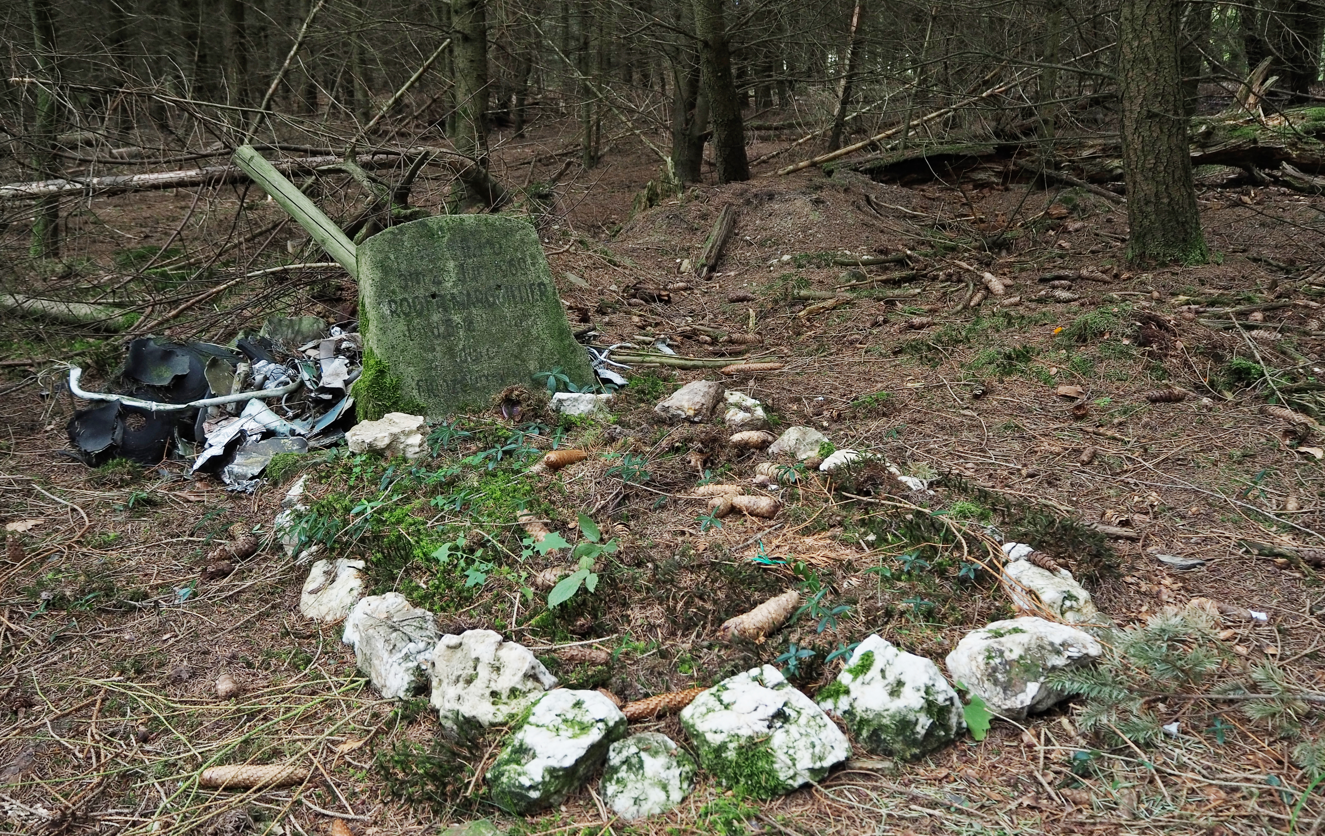 Memorial for a plane crashed in 1969